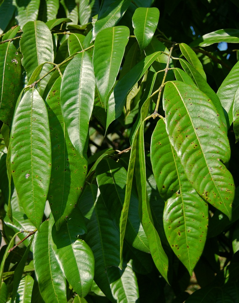 Bouea macrophylla, leaves. From Darmaga, Bogor, West Java, Indonesia